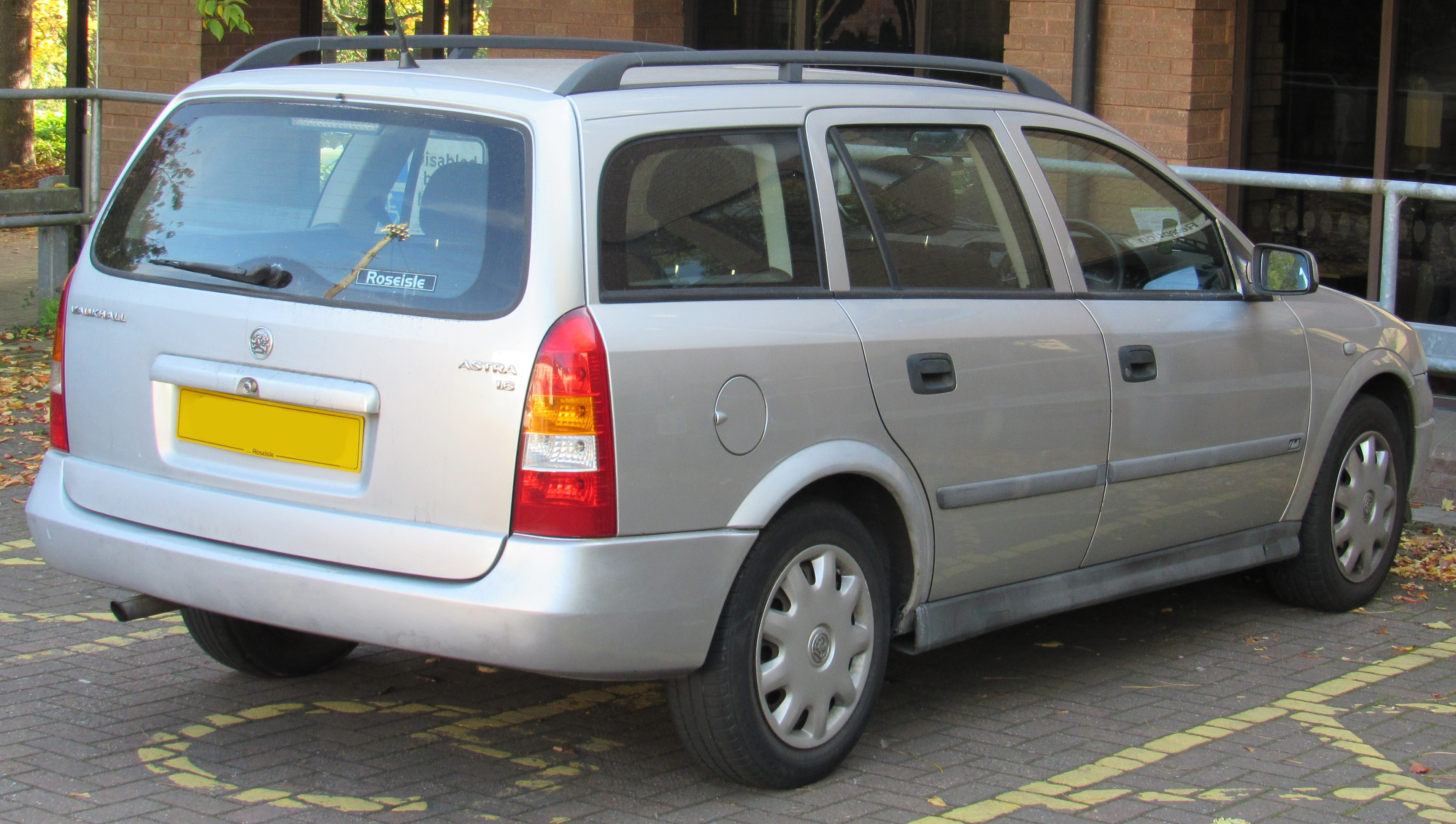 2001 Vauxhall Astra Club 8V 1.6 Taken in Leamington Spa